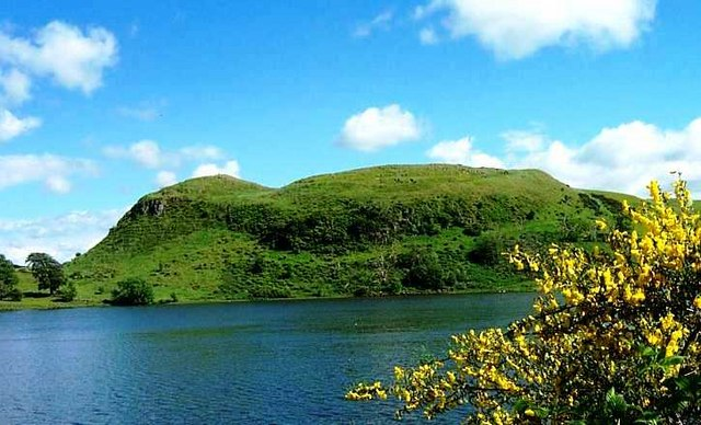 Duncarnock Hill Fort The Craigie, near Barrhead